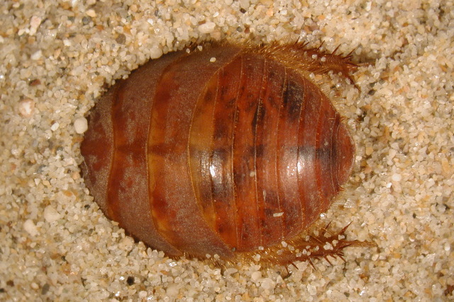 Sand roach from the dunefields of the western US.